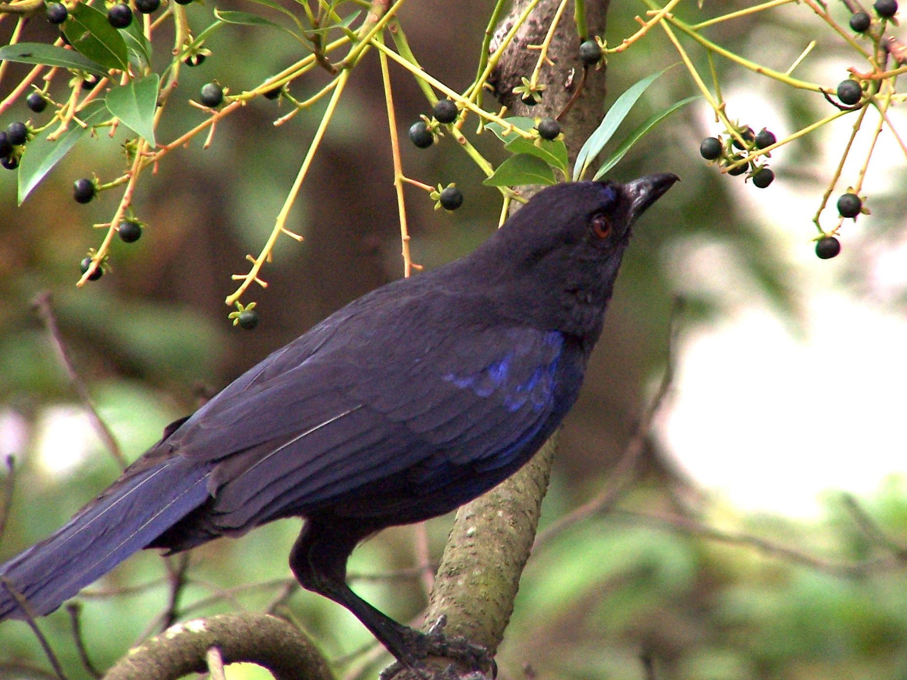 Taiwan Whistling Thrush Myophonus insularis